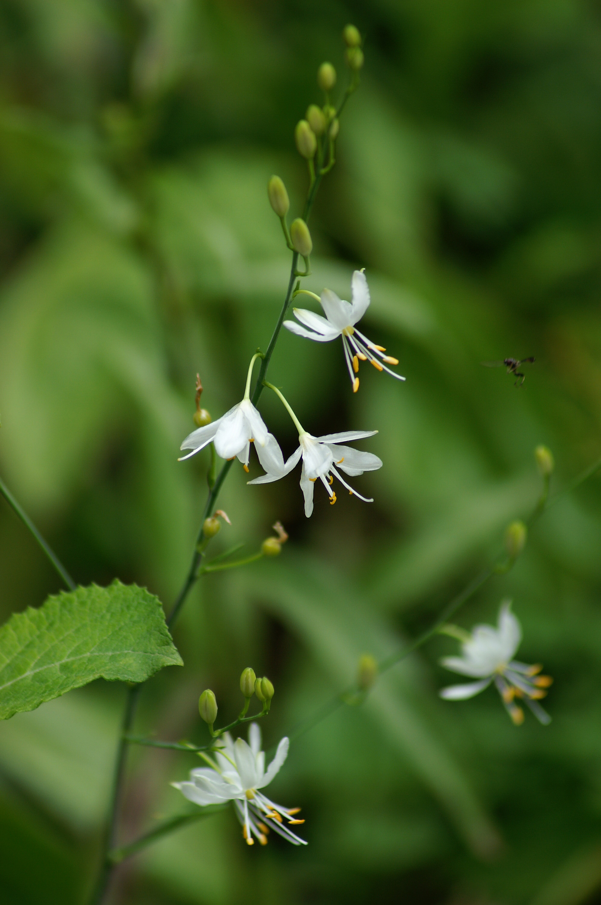 Anthericum ramosum